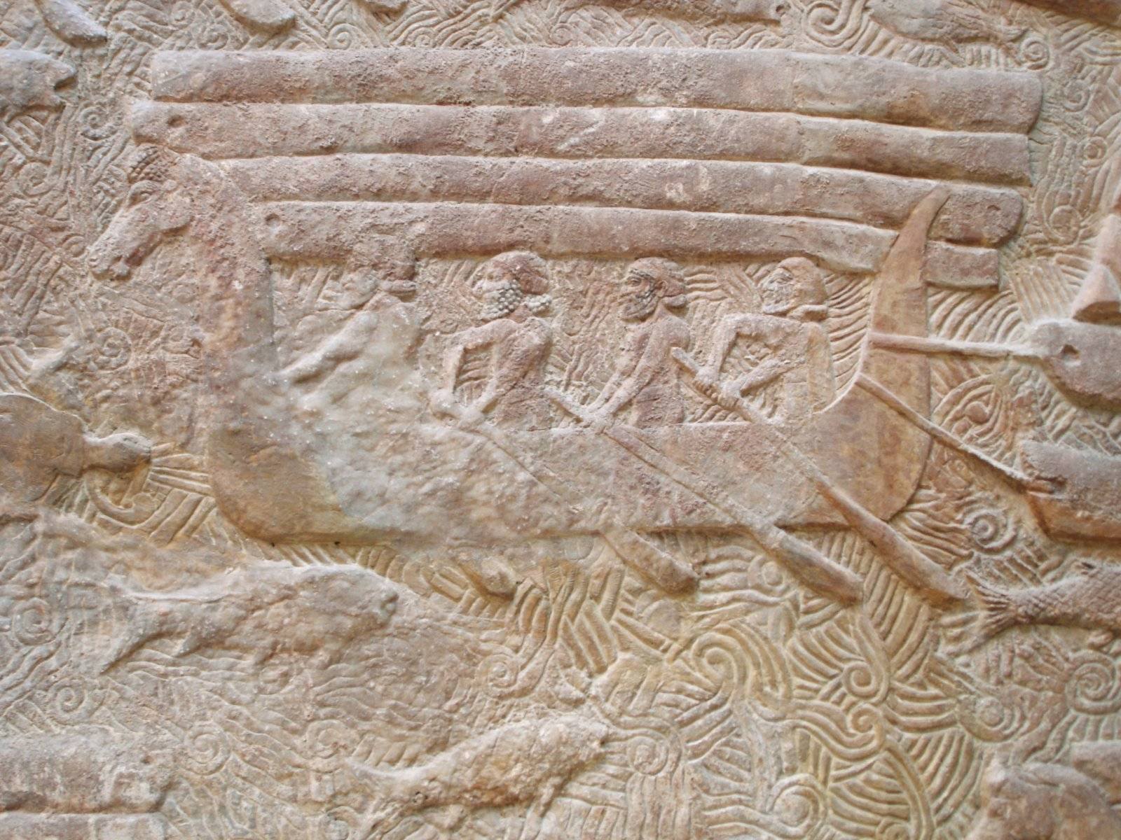 Transport of Lebanese cedar. Low-relief from the North wall of the main court, king Sargon II's palace at Dur Sharrukin in Assyria (now Khorsabad in Iraq), c. 713–716 BC.